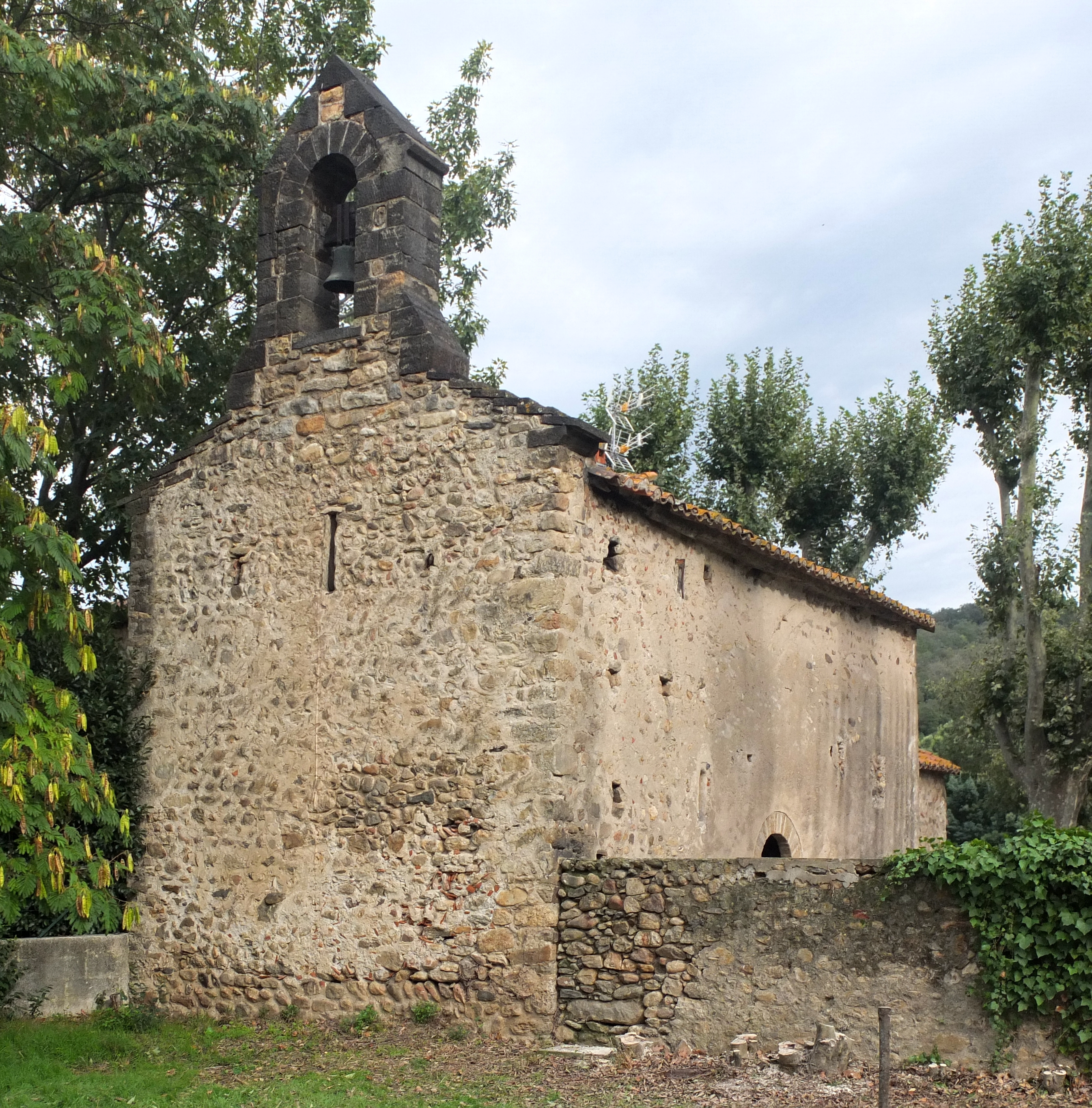 Romanesque chapel "Saint-Martin de Fenollar" near Maureillas-las-Illas, France (view W.)